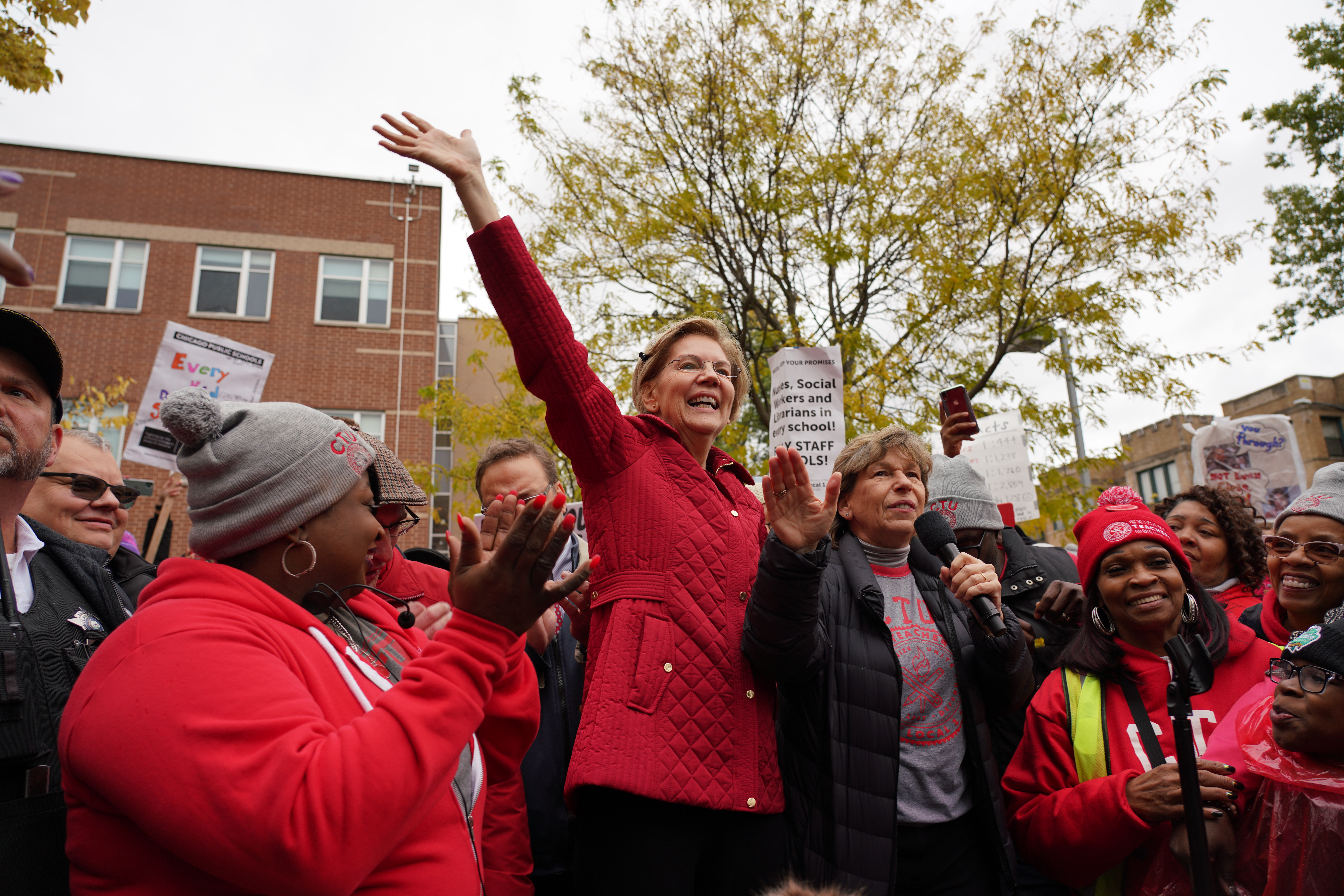 October 22, 0219